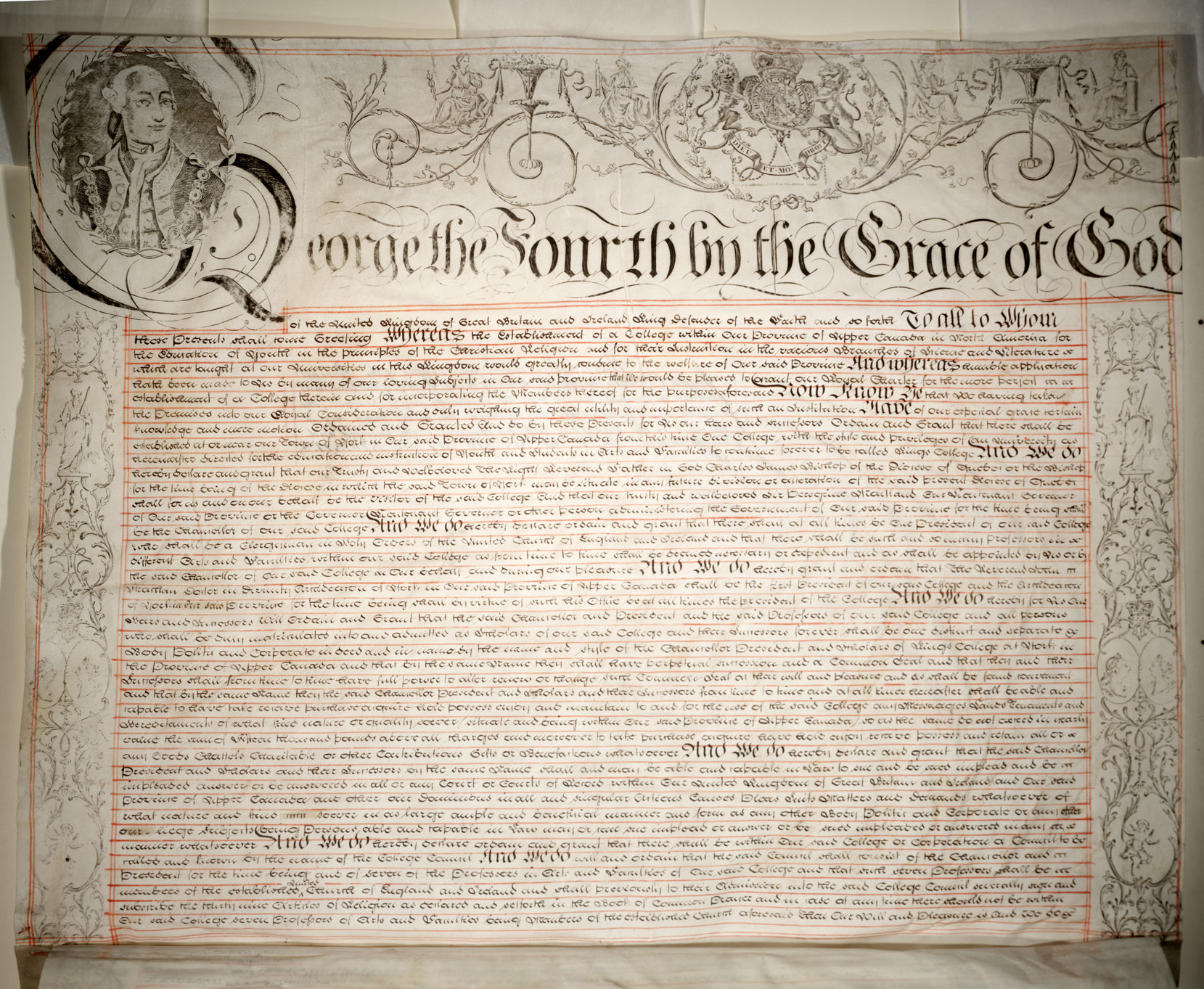 The first leaf of the Royal Charter of the University of King's College, granted 15 March 1827. The charter was written on vellum and included an image of the reigning monarch, George IV.